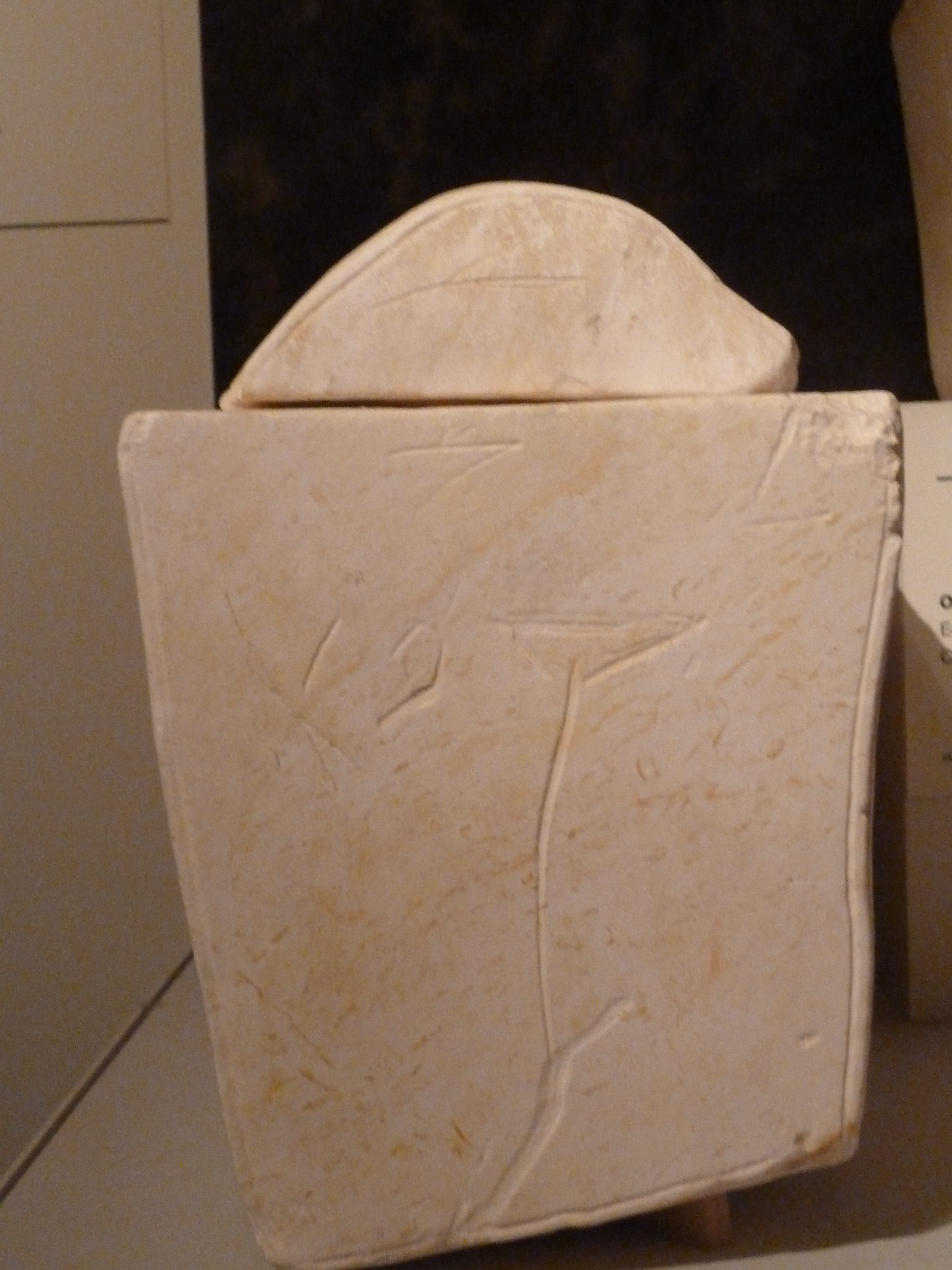 Ossuary of the high priest, Joseph Caiaphas, was found in Jerusalem in 1990. The Israel Museum, jerusalem